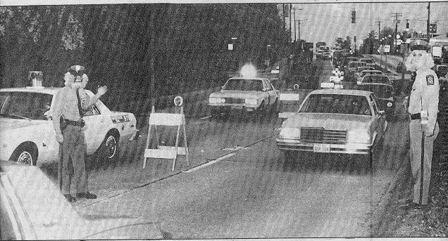 MCPD, Georgia Avenue, Randolph Road, Maryland, 1981